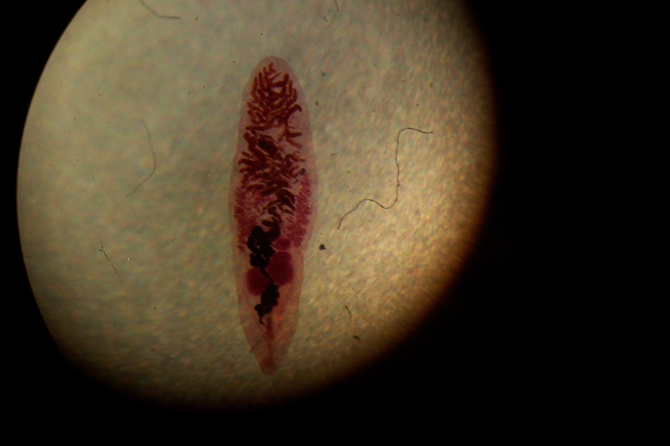 Dicrocoelium dendriticum, from teaching slides at the University of Edinburgh